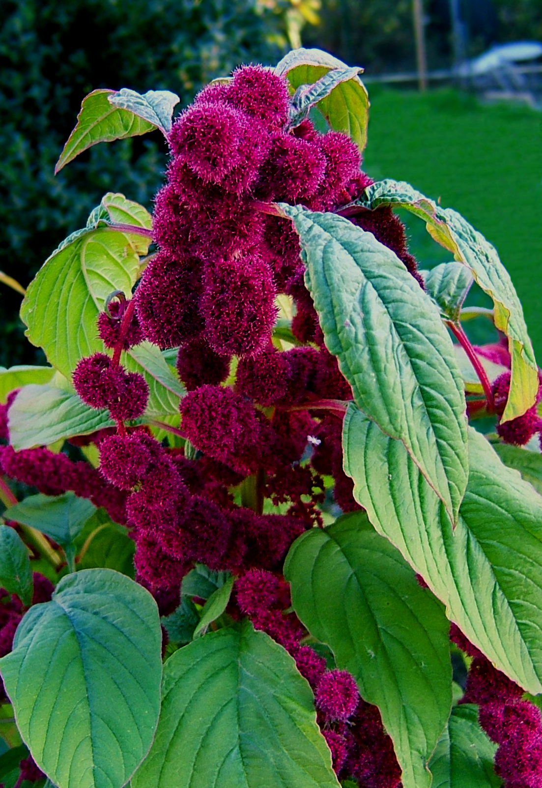 Amaranth, loves-lies-bleeding, foxtail amaranth, Tassel Flower